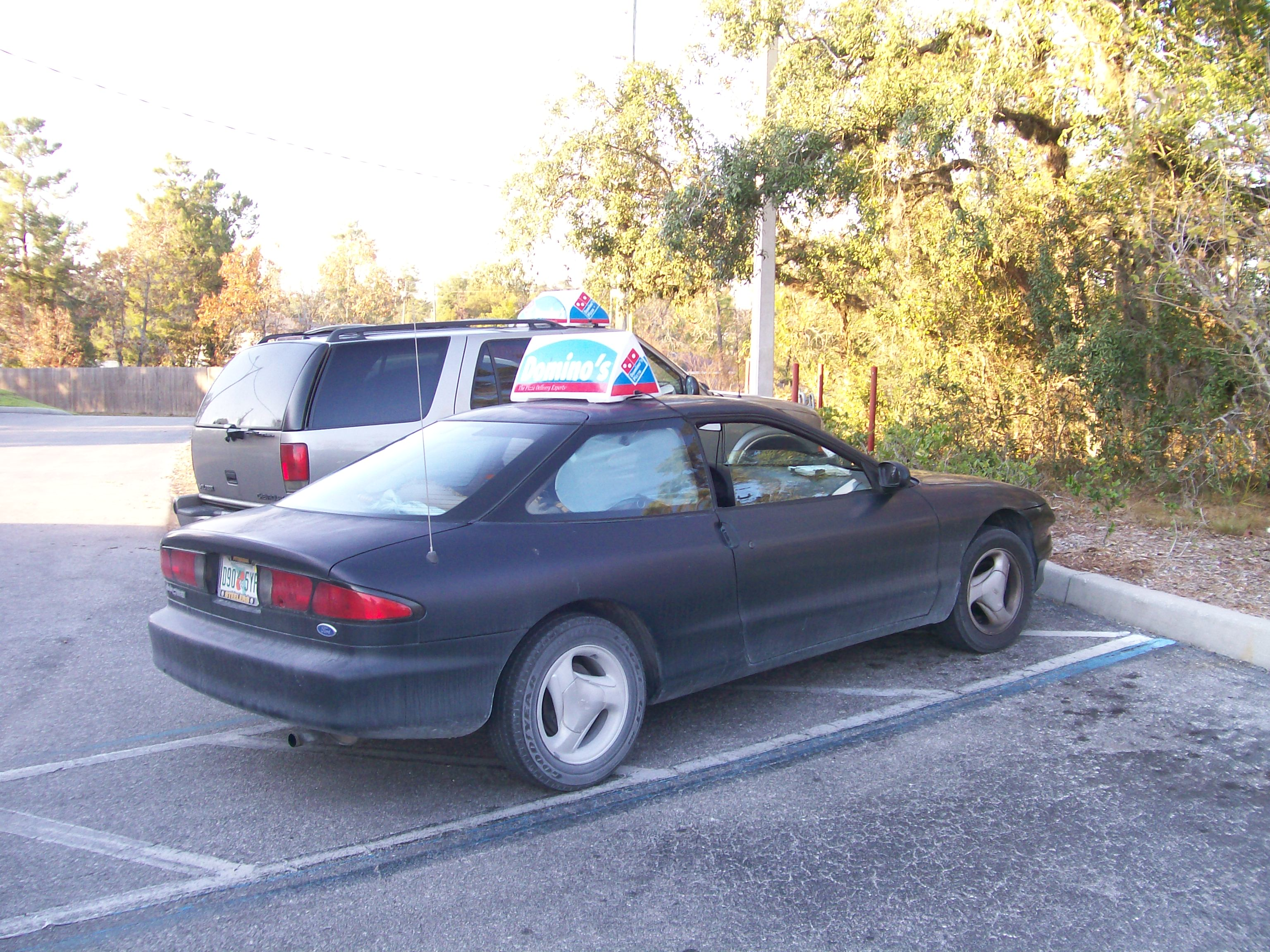 1996 Ford Probe Dominos Delivery Car